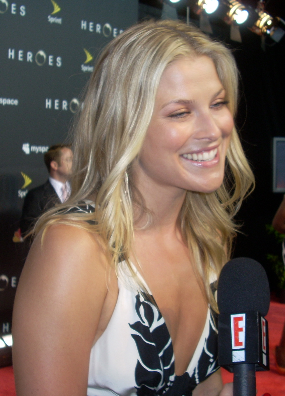 Ali Larter in "Heroes" Season Three Premiere Party, Edison L.A., Downtown Los Angeles - Sept. 7, 2008